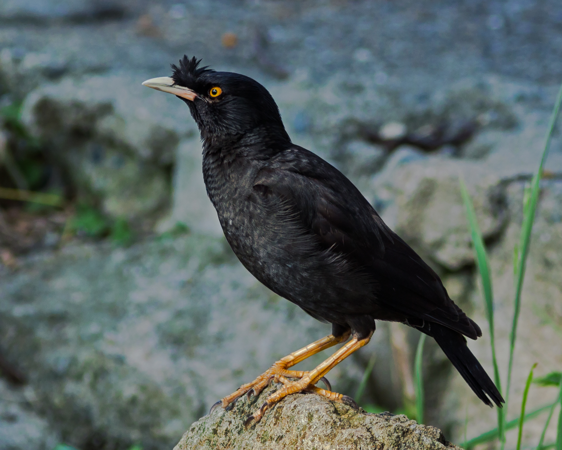 Crested myna, taken at Osaka Japan.